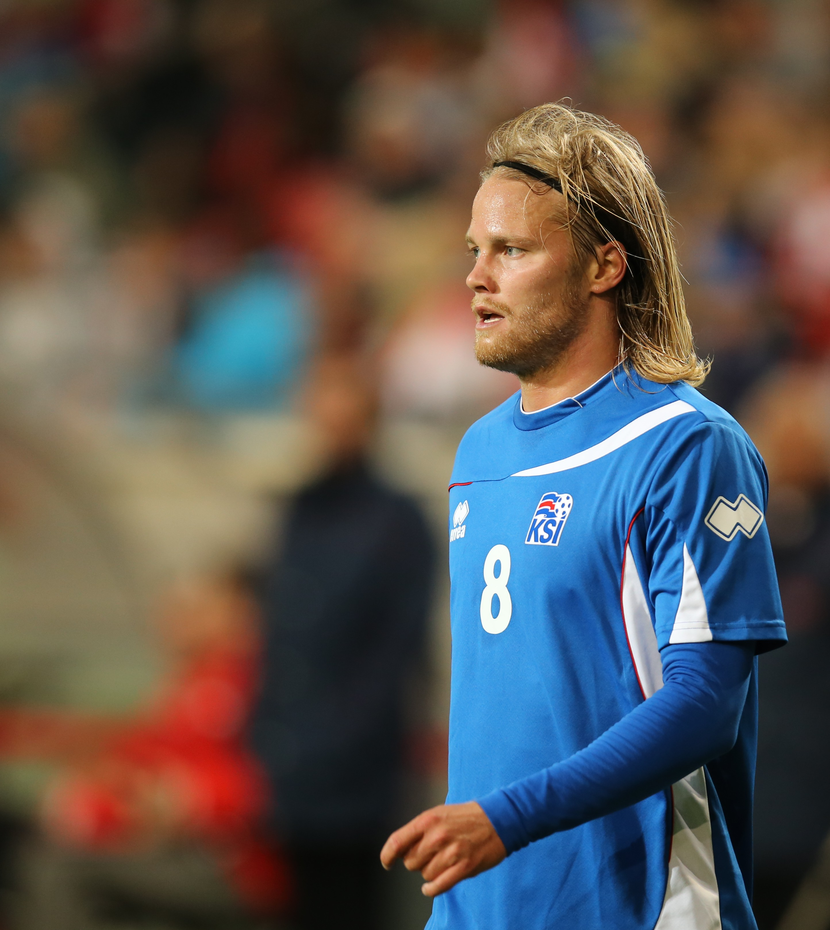 Austria - Iceland football match in Innsbruck, Austria on 2014-05-30. Austria in red, Iceland in blue.